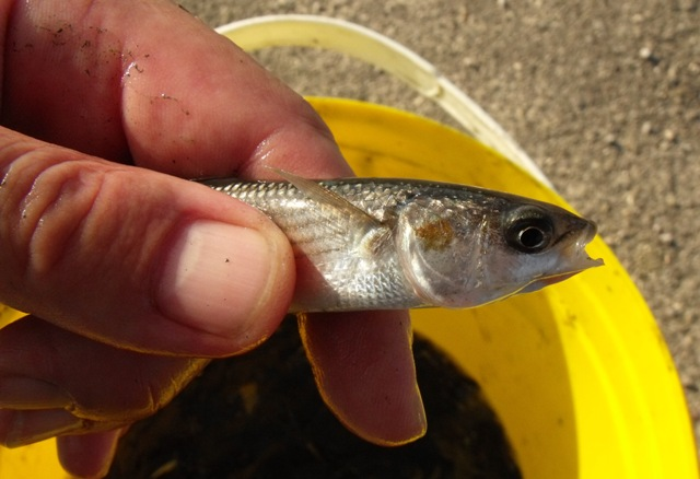 Liza aurata photographed in a brackish coastal stream in Grosseto province (Tuscany, central Italy). Photo by Massimiliano Marcelli.